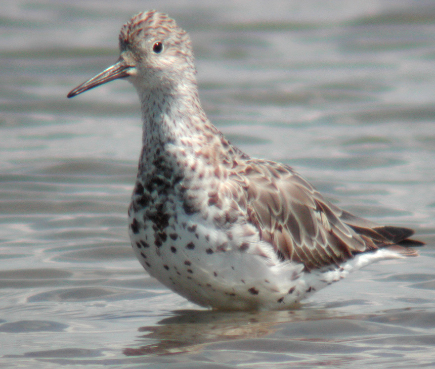 Great Knot (Calidris tenuirostris) Scarborough, SE Queensland, Australia